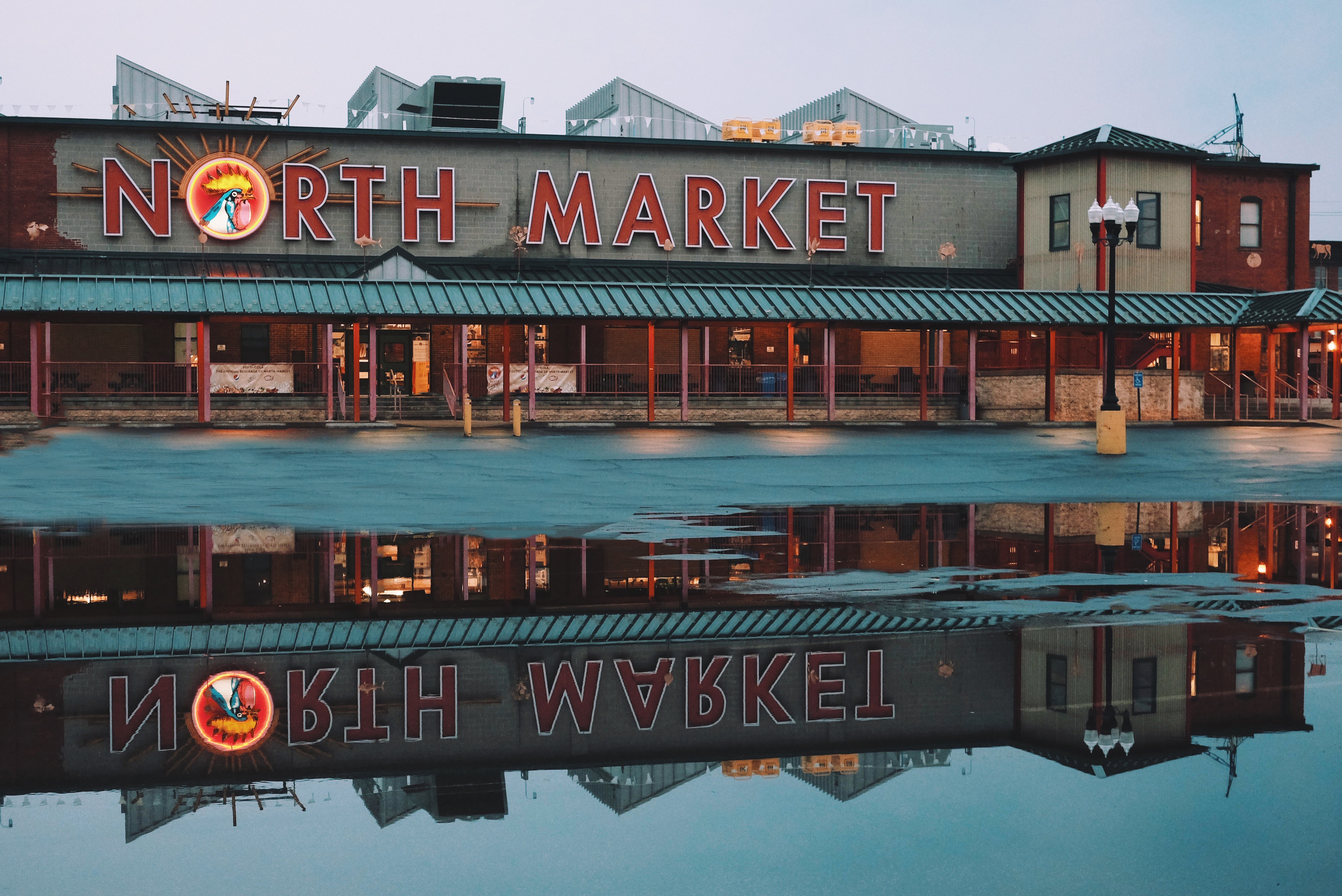 View of the historic North Market. The Market is the last remaining public market in Central Ohio.